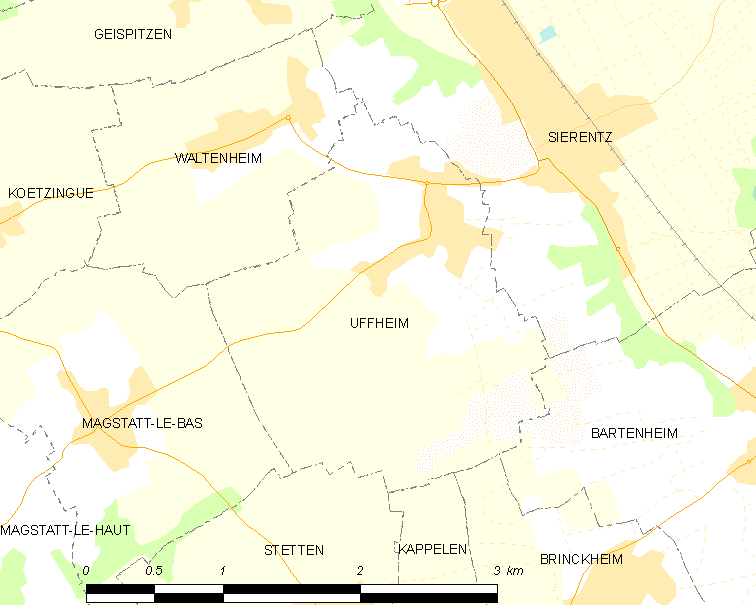 Map of French municipality